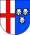 Coat of arms of the Town Rheinbrohl